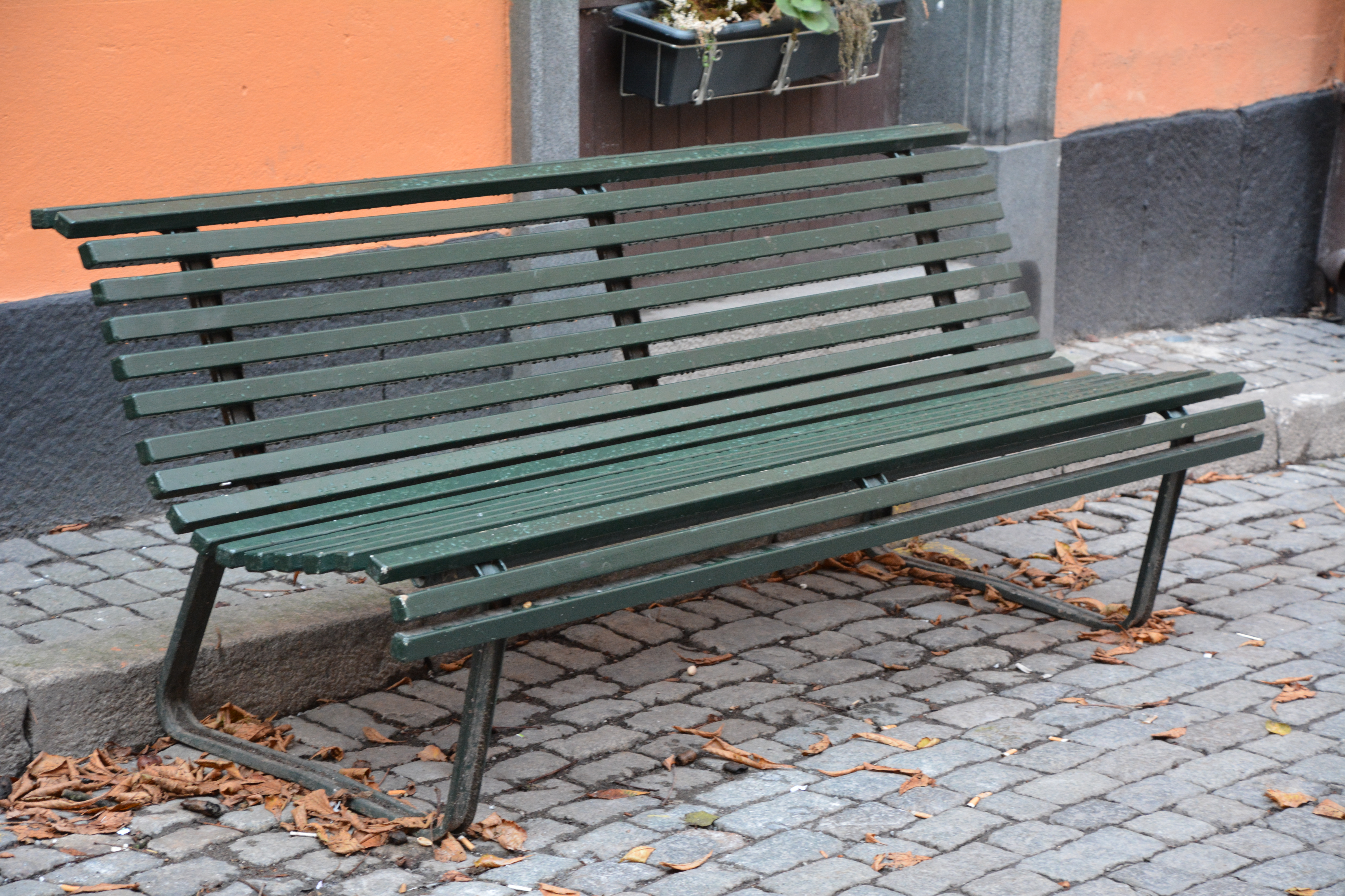 Bernch designed by Holger Blom, at Brända tomten in Stockholm, Sweden